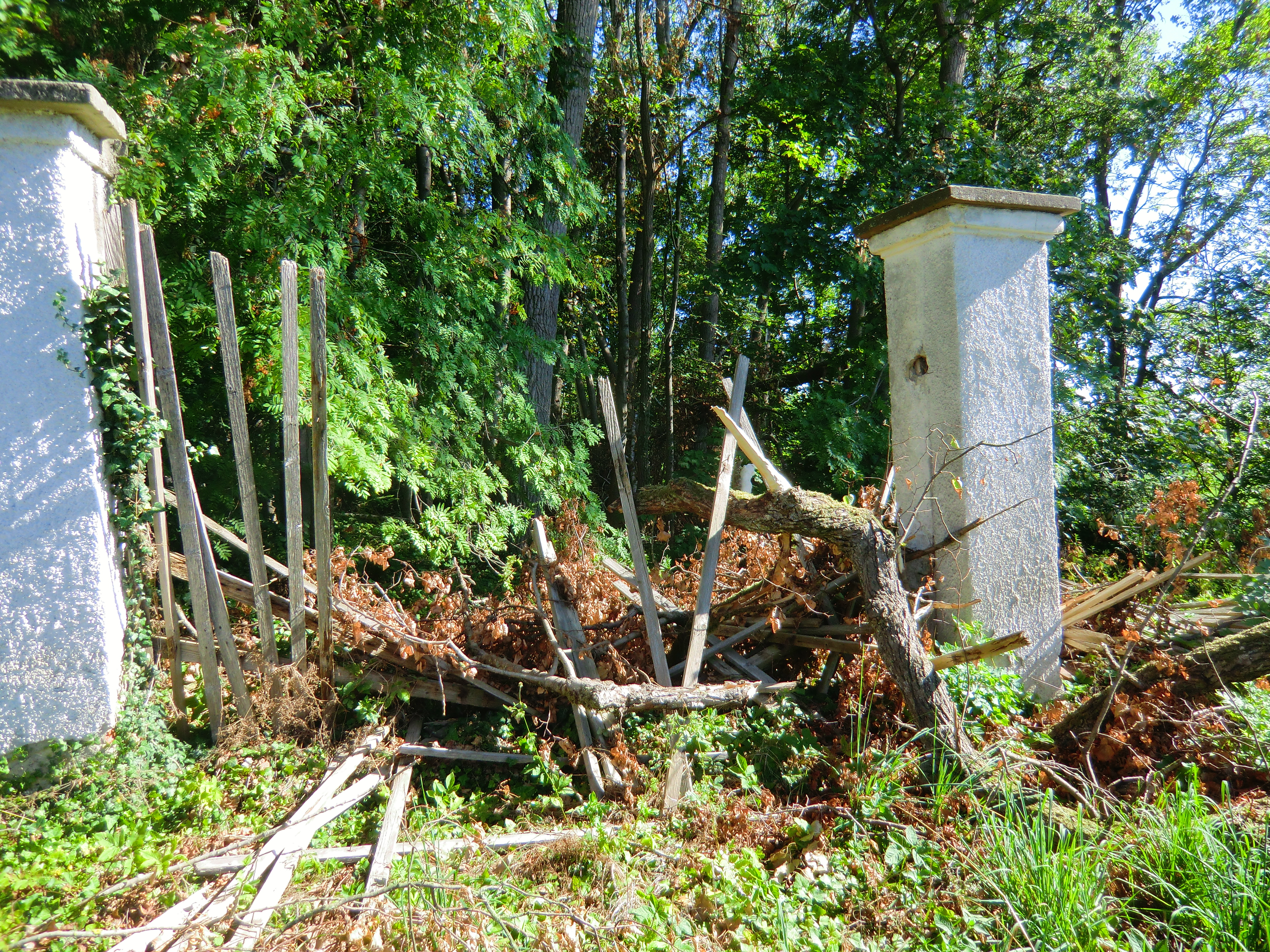 Lime tree at Gailenbach Castle